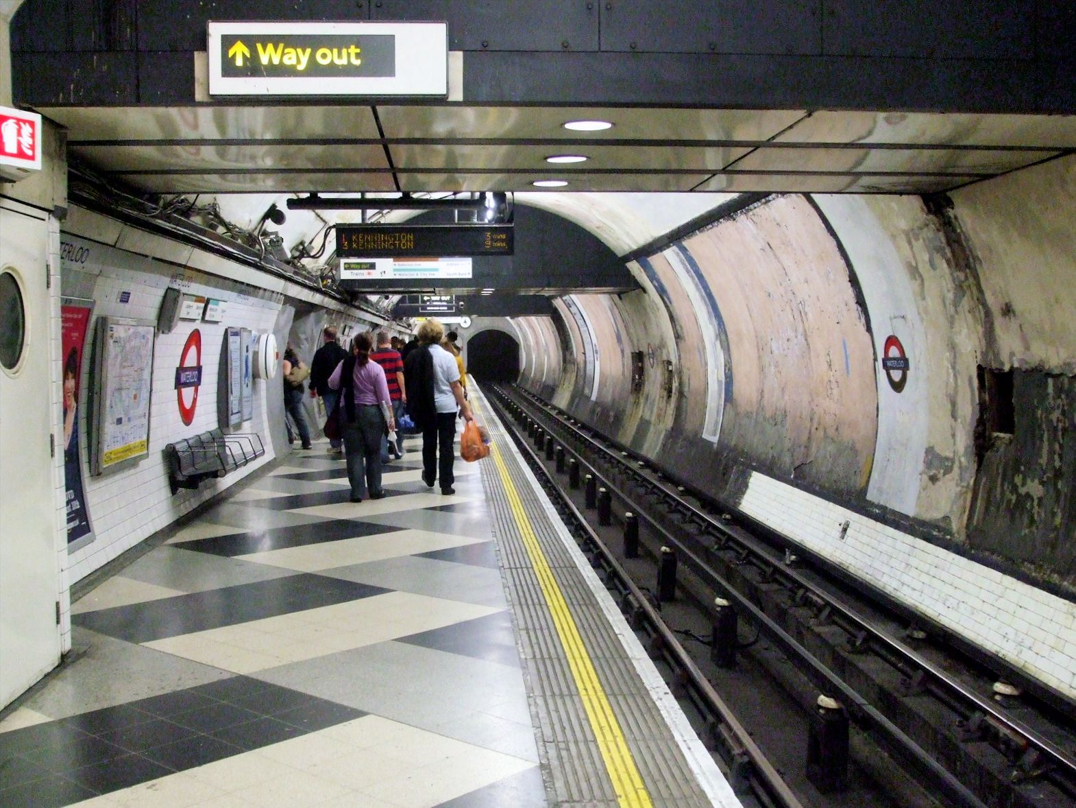 Waterloo tube station Northern line southbound platform looking north